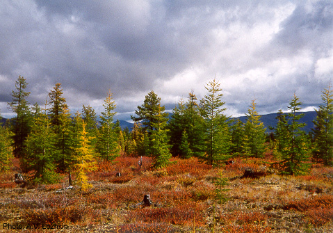 Larch (Larix gmelinii, syn. L. dahurica) forest in the fall. Upper Kolyma region, arctic northeast Siberia, Russia.